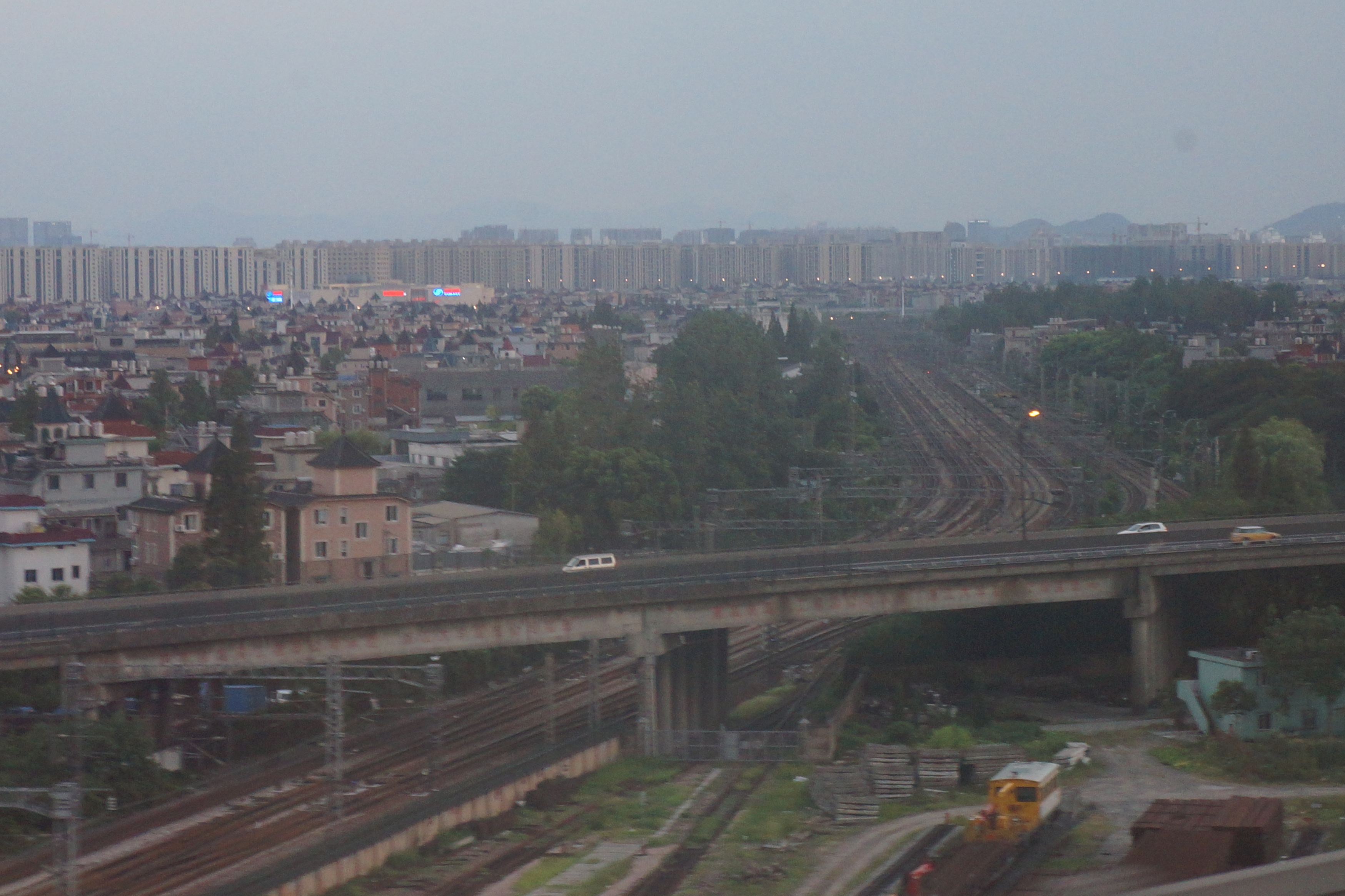 201608 Jianqiao Station